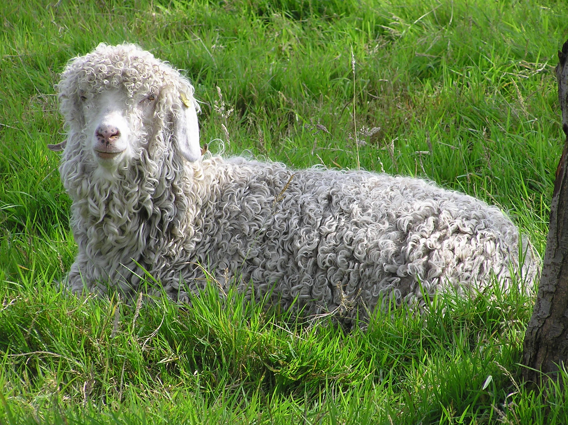 Angora goat at Avon Valley Country Park, Bristol, England.